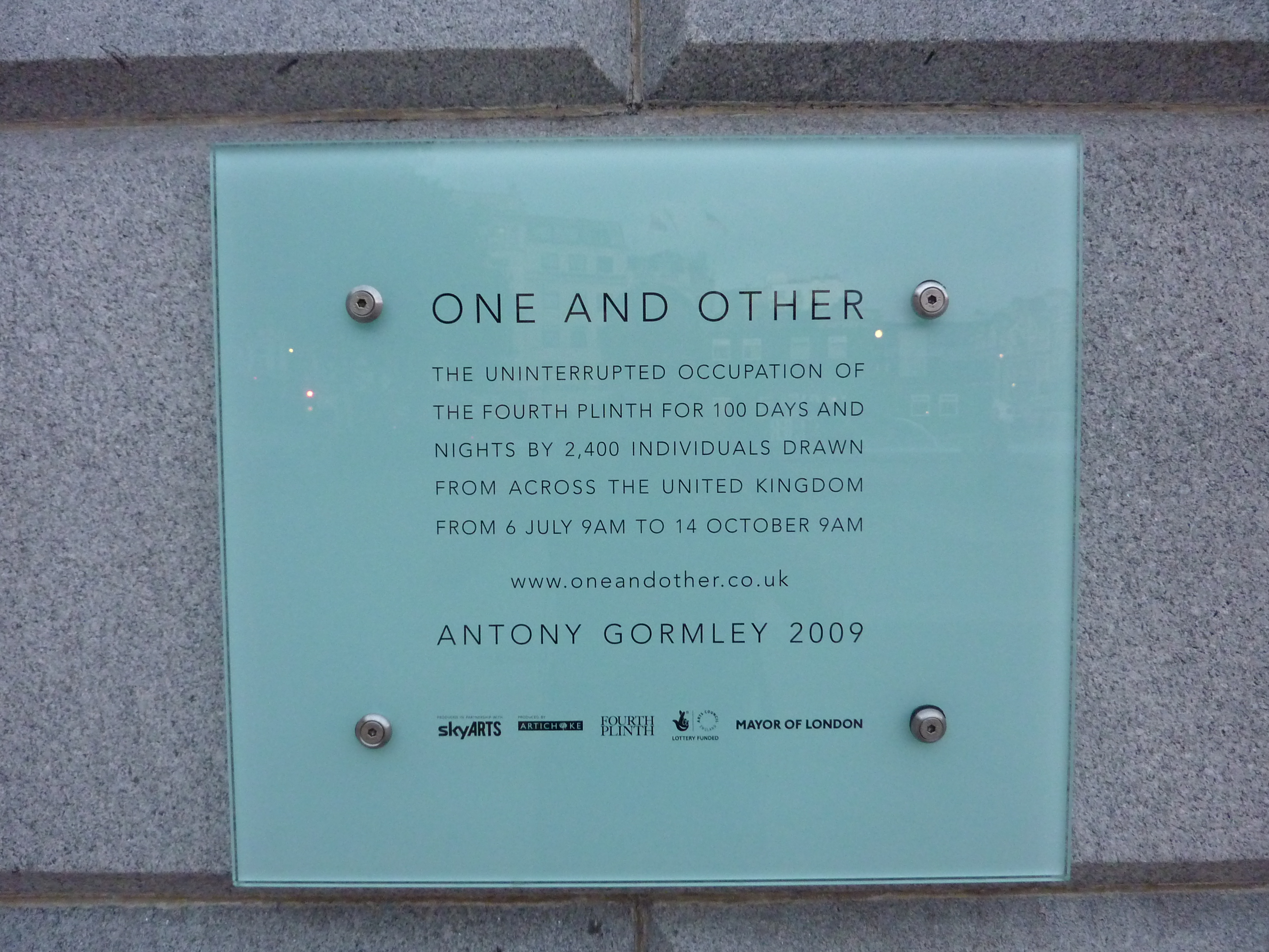 A plaque on the "fourth plinth" at Trafalgar Square in London describing British artist Antony Gormley's art installation One and Other, consisting of 2,400 randomly selected members of the public who each spent one hour on the plinth between 6 July and 14 October 2009.